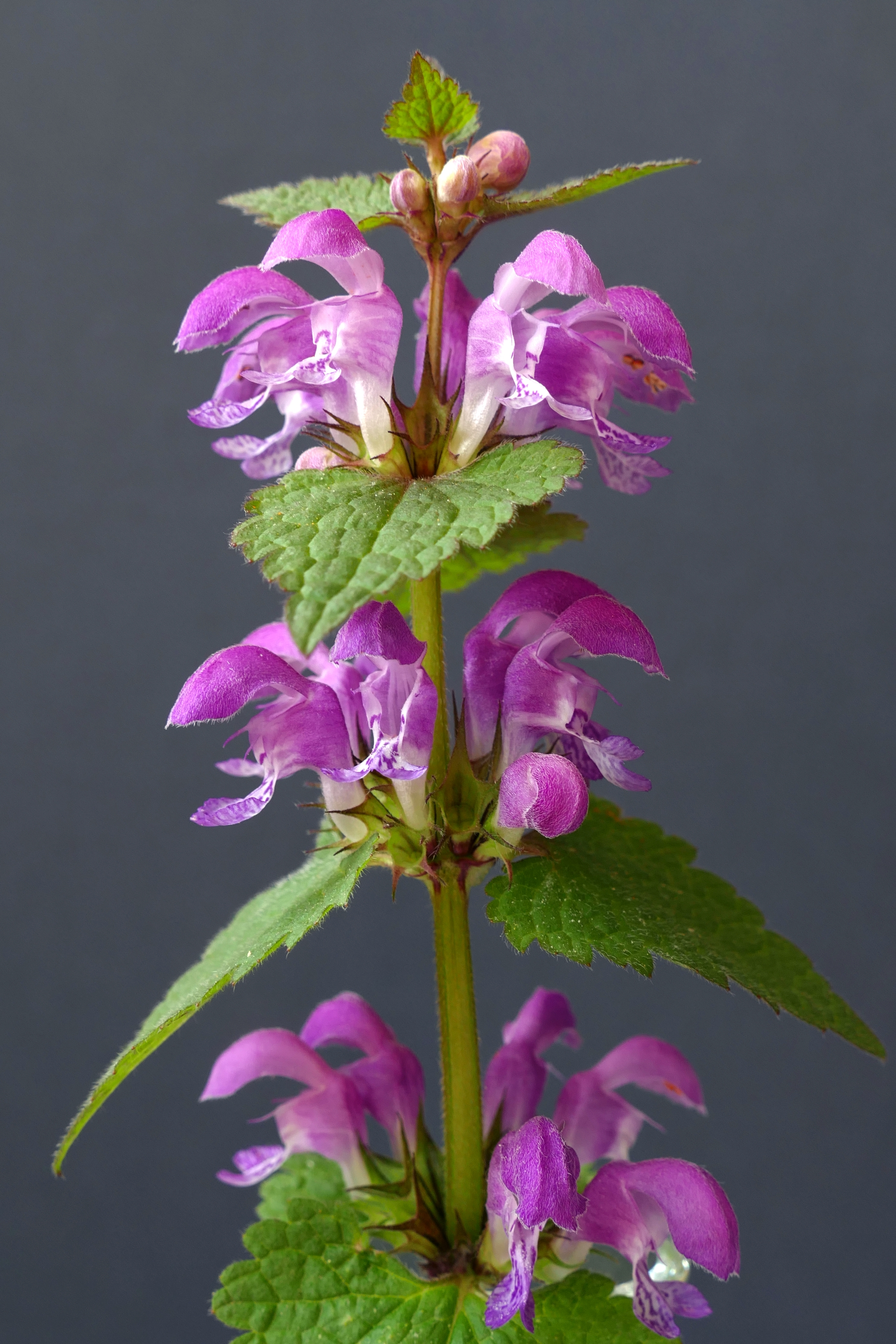 Lamium maculatum (L.) L. Flowering Spotted dead-nettle.